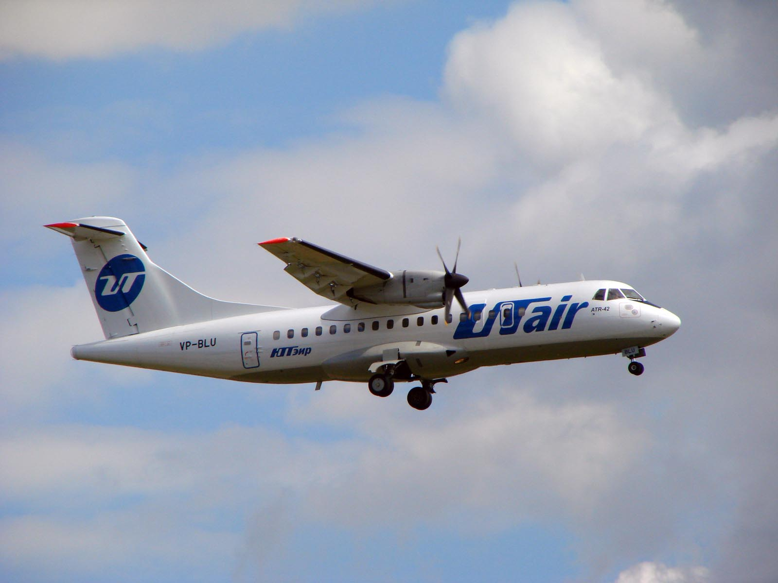 UTair Aviation ATR 42 twin-turboprop landing in Vnukovo airport, Moscow.